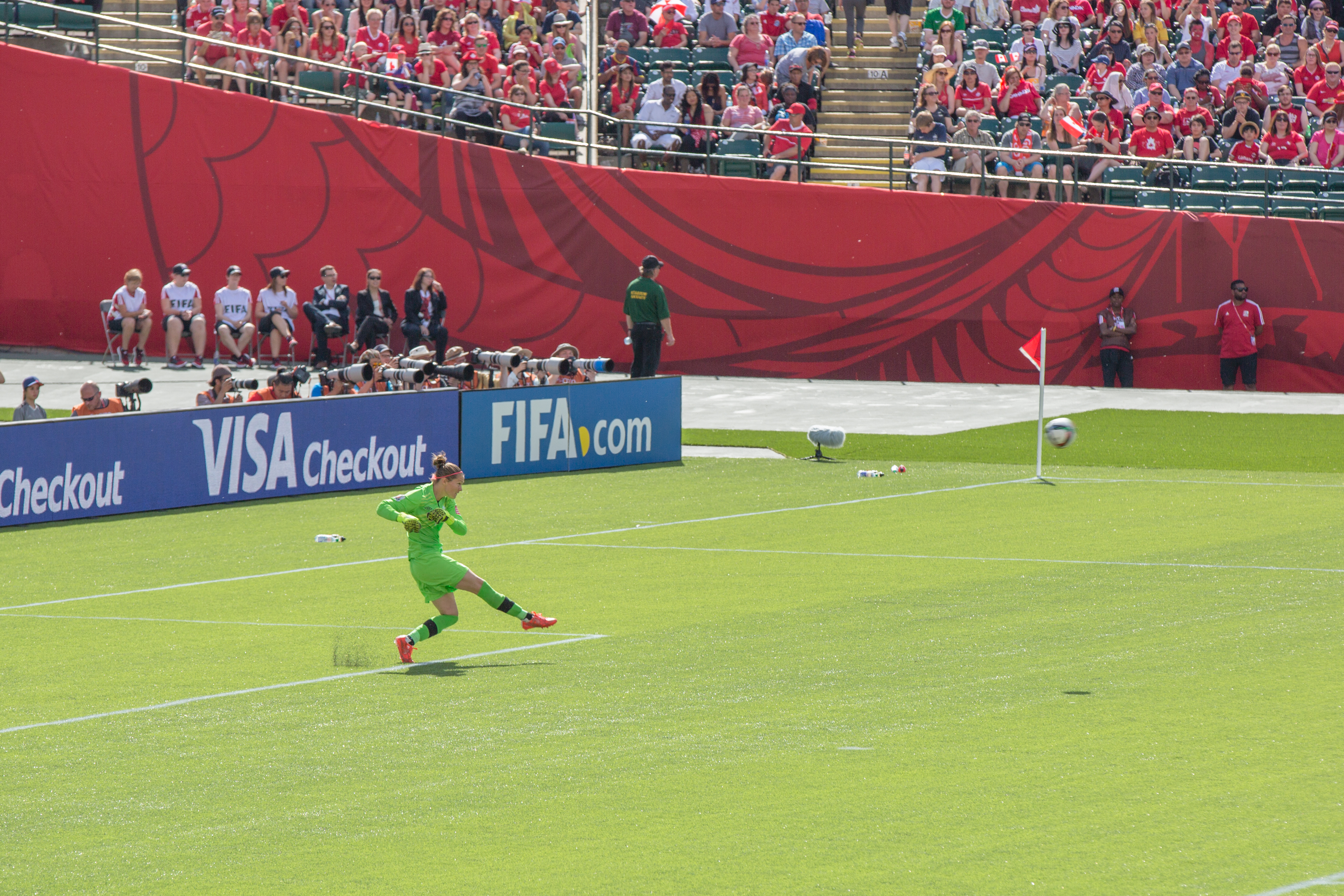 Erin McLeod, Canadian goalkeeper